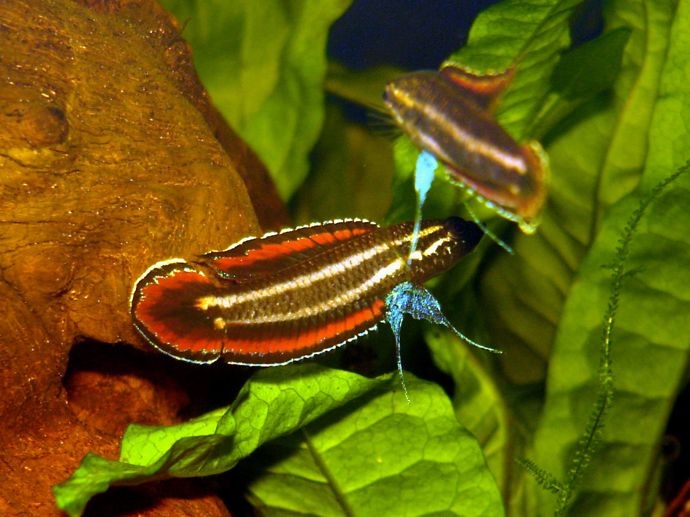 Parosphromenus spec. Langgam males in aggressive display